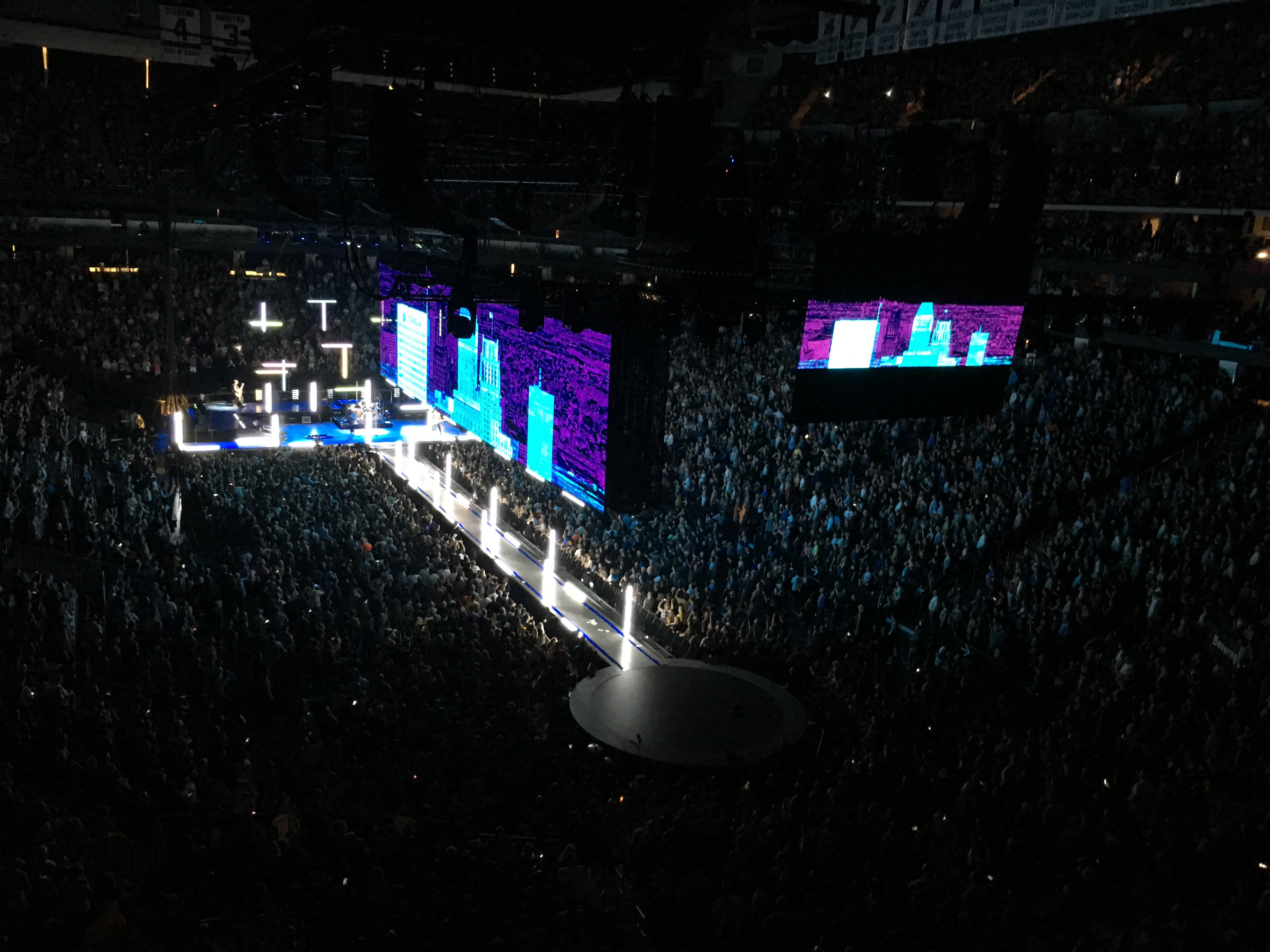 U2's performance of "City of Blinding Lights" at Newark's Prudential Center during the group's Experience + Innocence Tour. The lighting effects features variously oriented fluorescent tubes in positions around the stages, while the video screen shows imagery-laced local cityscapes.